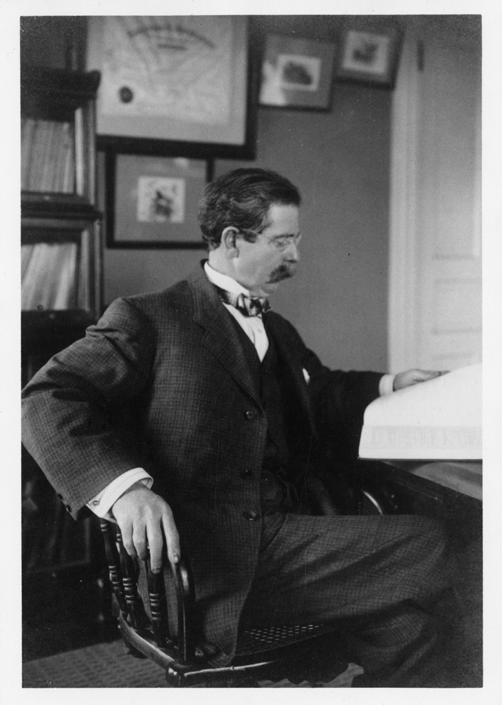 Robert Ridgway sits at his desk on which there is a book he is looking at. Pictures and a diploma are hanging on the wall and part of a bookcase is visible. Robert Ridgway was an American ornithologist and first full time curator of birds at the Smithsonian's United States National Museum. In the picture you can see Ridgway's hand is blackened from the arsenic used to preserve the bird skins. While researching birds. Ridgway produced splendid drawings and paintings of birds.